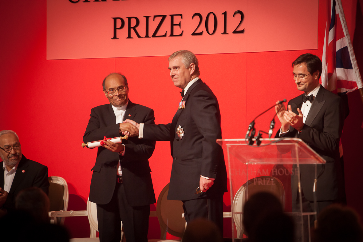 Moncef Marzouki receiving the Chatham House award 2012 from the Duke of York